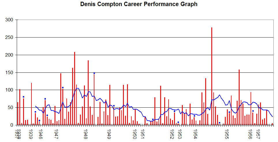 This graph details the Test Match performance of Denis Compton. It was created by Raven4x4x. The red bars indicate the player's test match innings, while the blue line shows the average of the ten most recent innings at that point. Note that this average cannot be calculated for the first nine innings. The blue dots indicate innings in which Compton finished not-out. This graph was generated with Microsoft Excel 2002, using data from Cricinfo and .au.